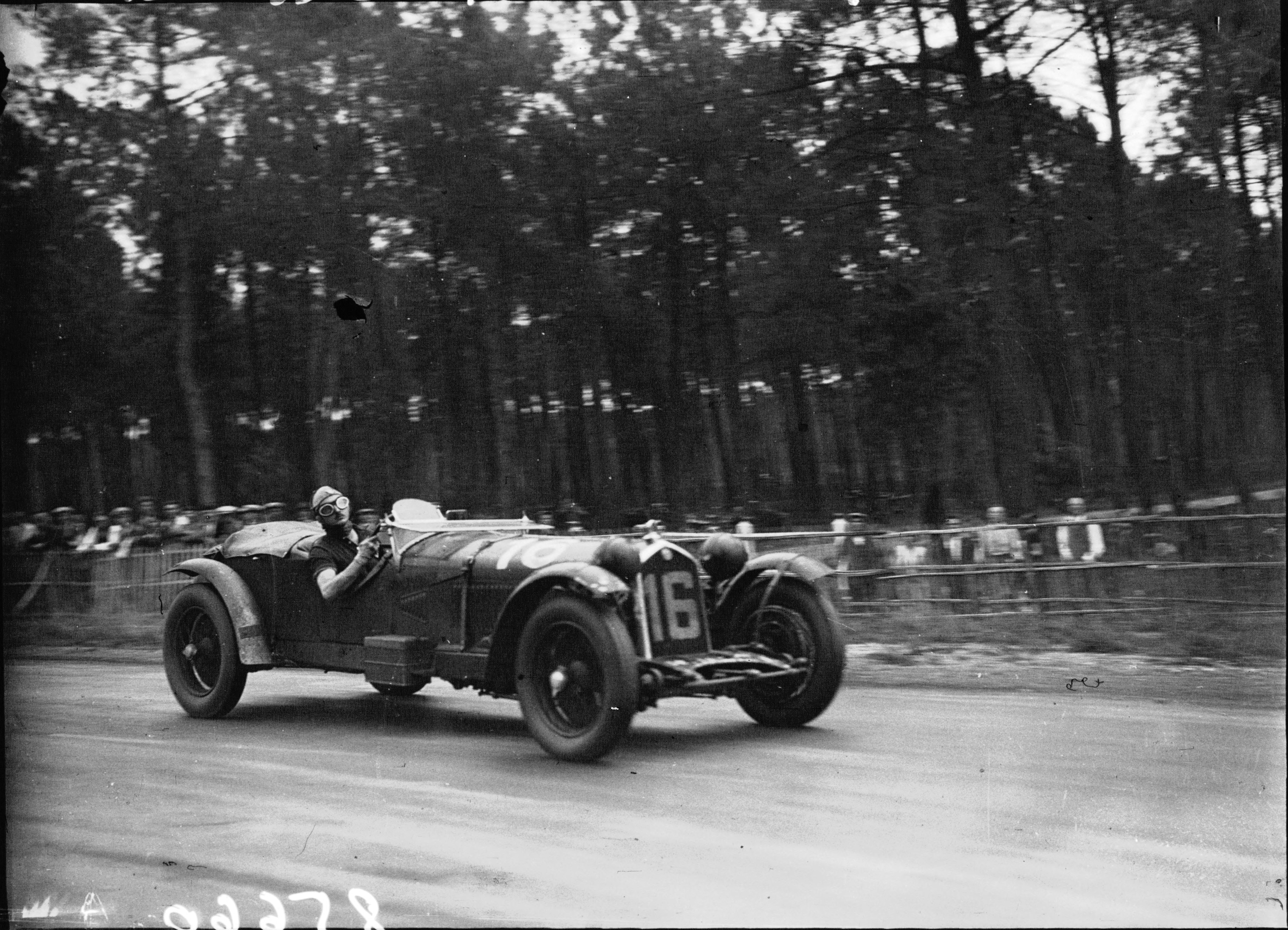 Alfa Romeo #16 of Birkin and Howe at the 1931 24 Hours of Le Mans.